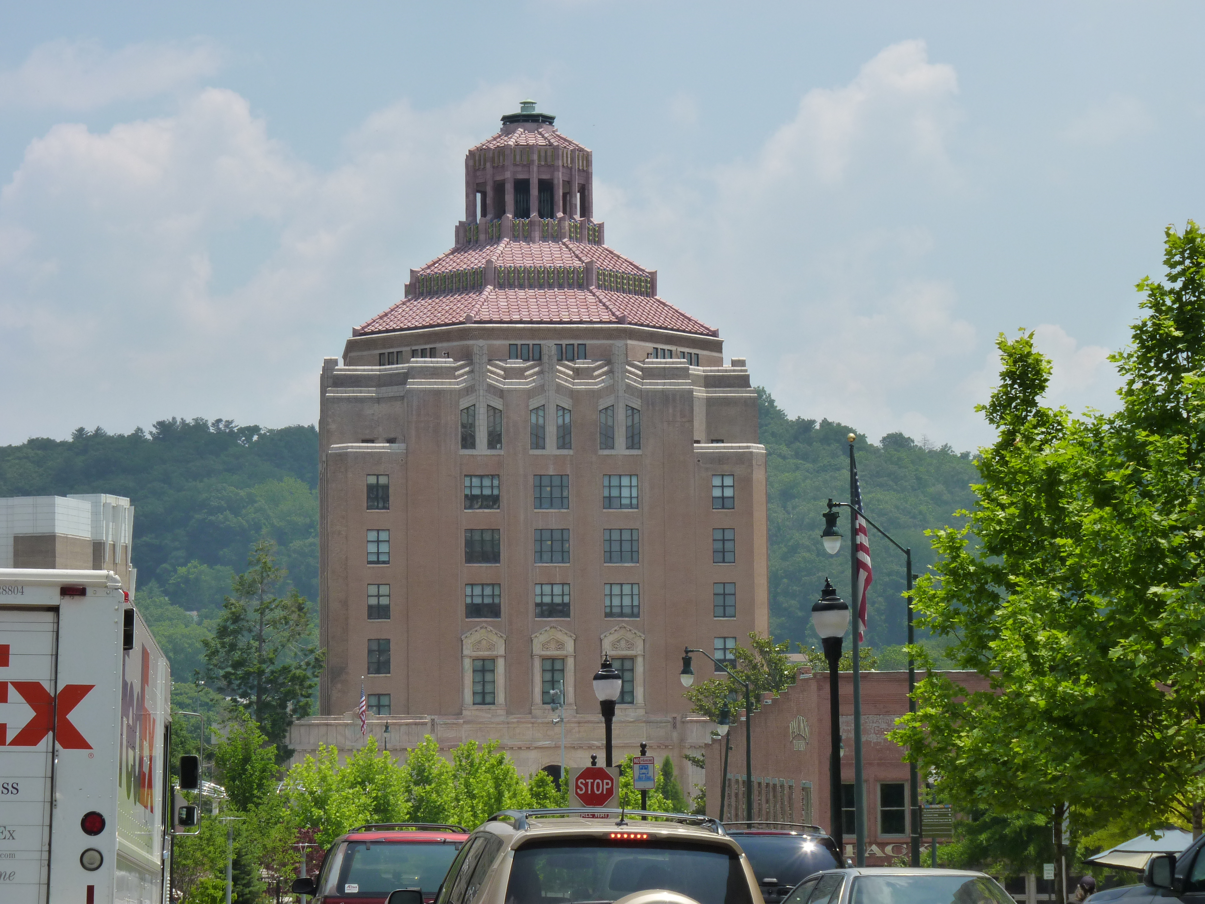 City Hall in Asheville, NC as seen from Broadway and Patton Street.